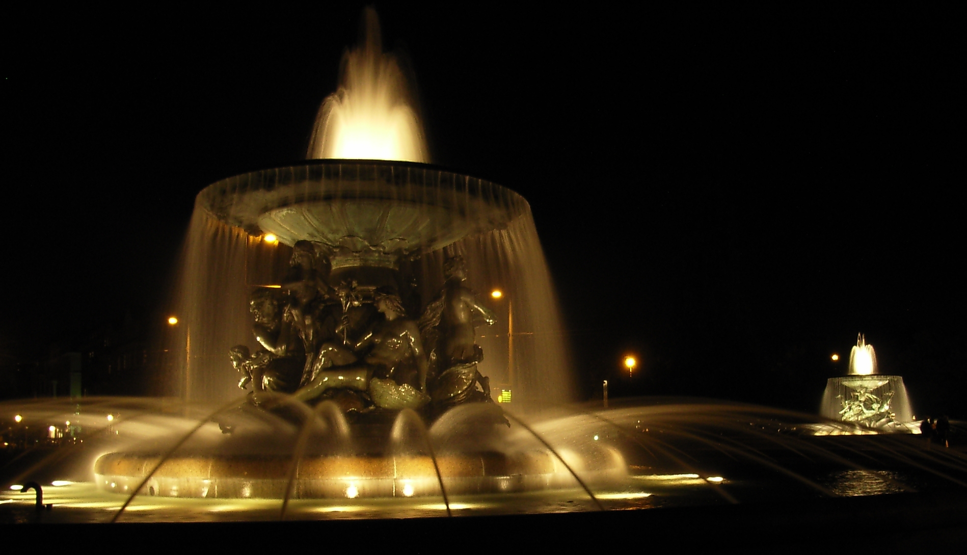 Fountains "Stilles Wasser" (front) and "Stürmische Wogen" (back) at Albertplatz in Dresden (Saxony, Germany) by Night. View towards the west.